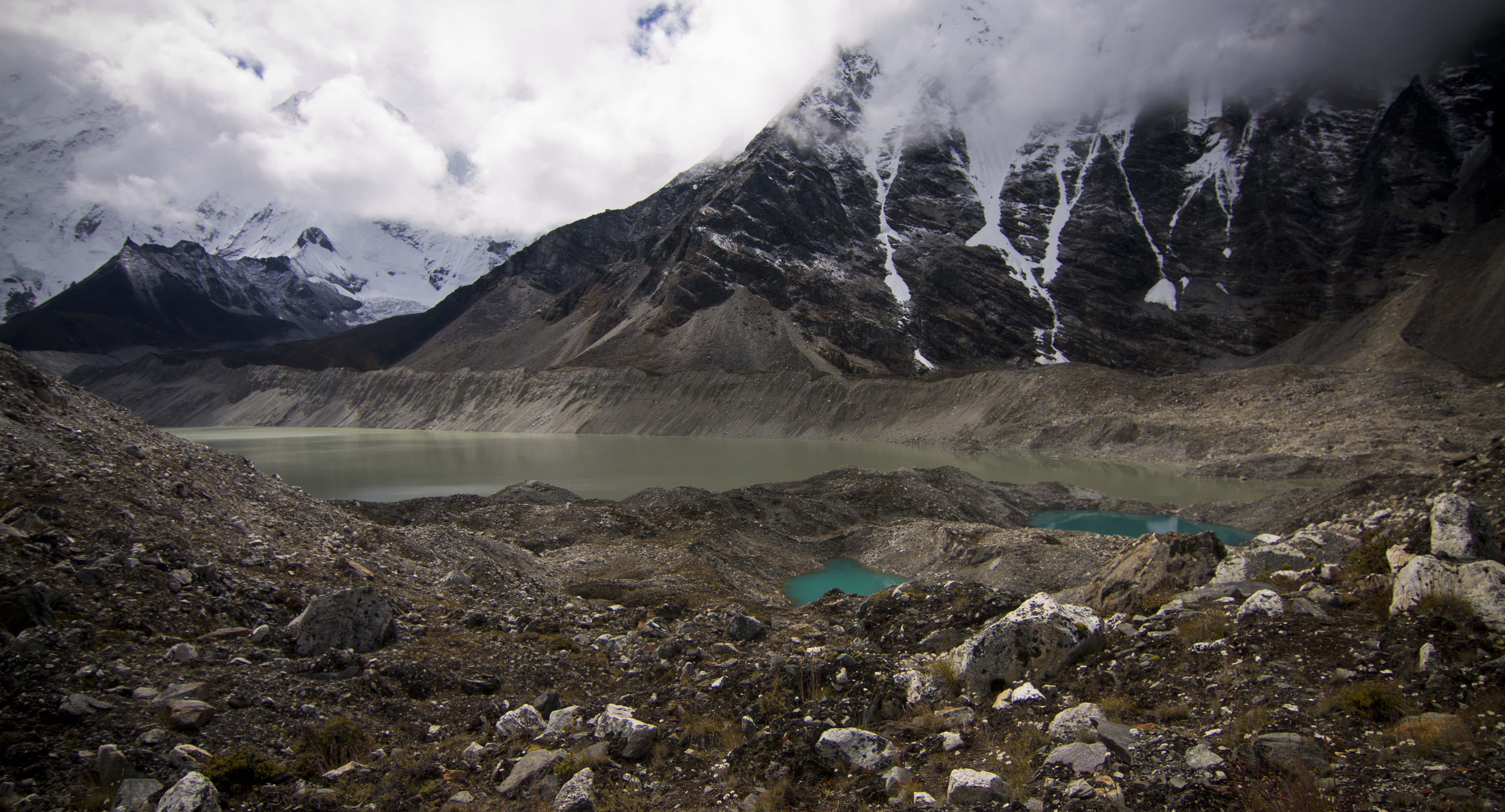 Imja Tsho, Khumbu Region, Nepal